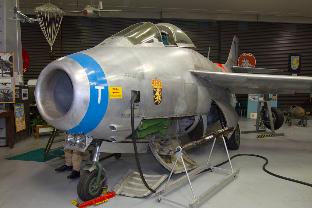 Saab J 29F Tunnan preserved at F 15 Aviation Museum in Soderhamn, Sweden